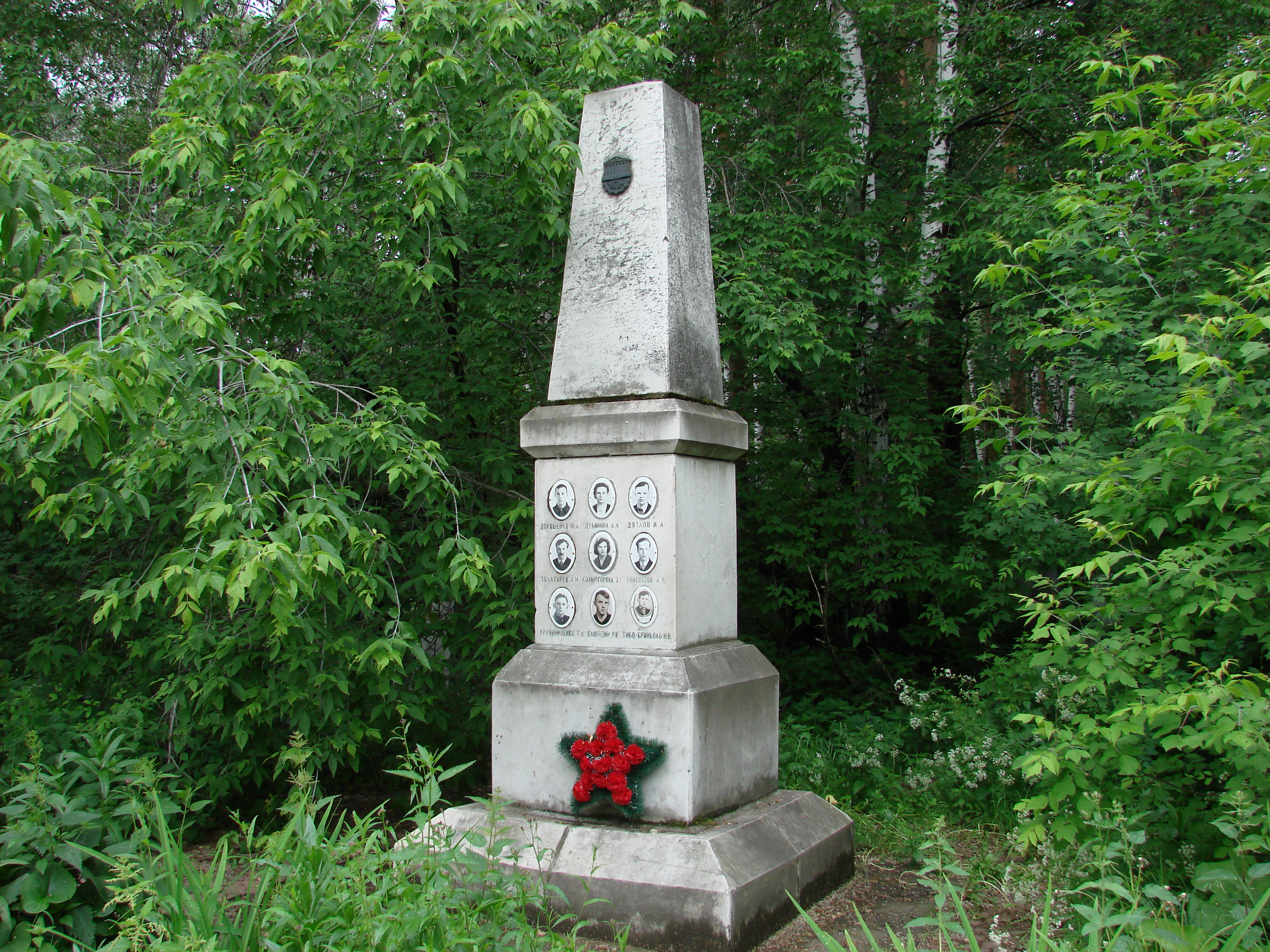 The Mikhajlov Cemetry in Yekaterinburg. The tomb of the group who had died in mysterious circumstances in the northern Ural Mountains.